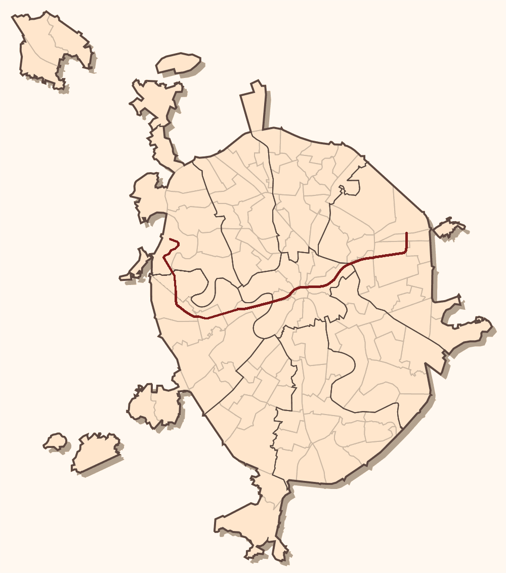 Map of Arbatsko-Pokrovskaya line of Moscow Metro on Moscow map